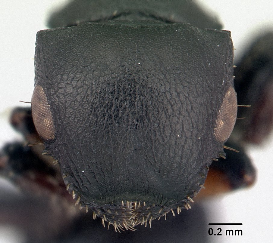 Head view of ant Cataulacus egenus specimen casent0178292.